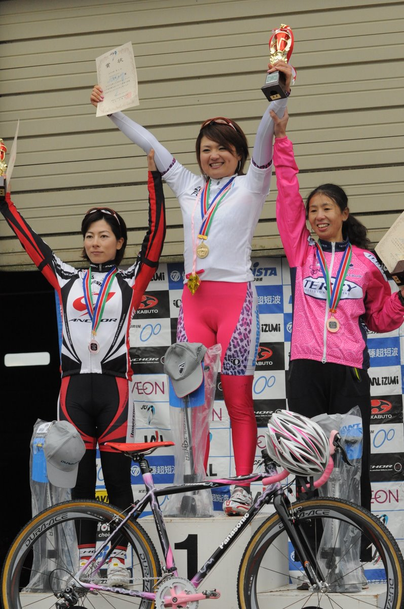 Female winners of the All Japan Cyclo-cross Championship 2009. Gold: Ayako Toyooka, Silver: Masami Morita, Bronze: Chi Fei Nakamura.